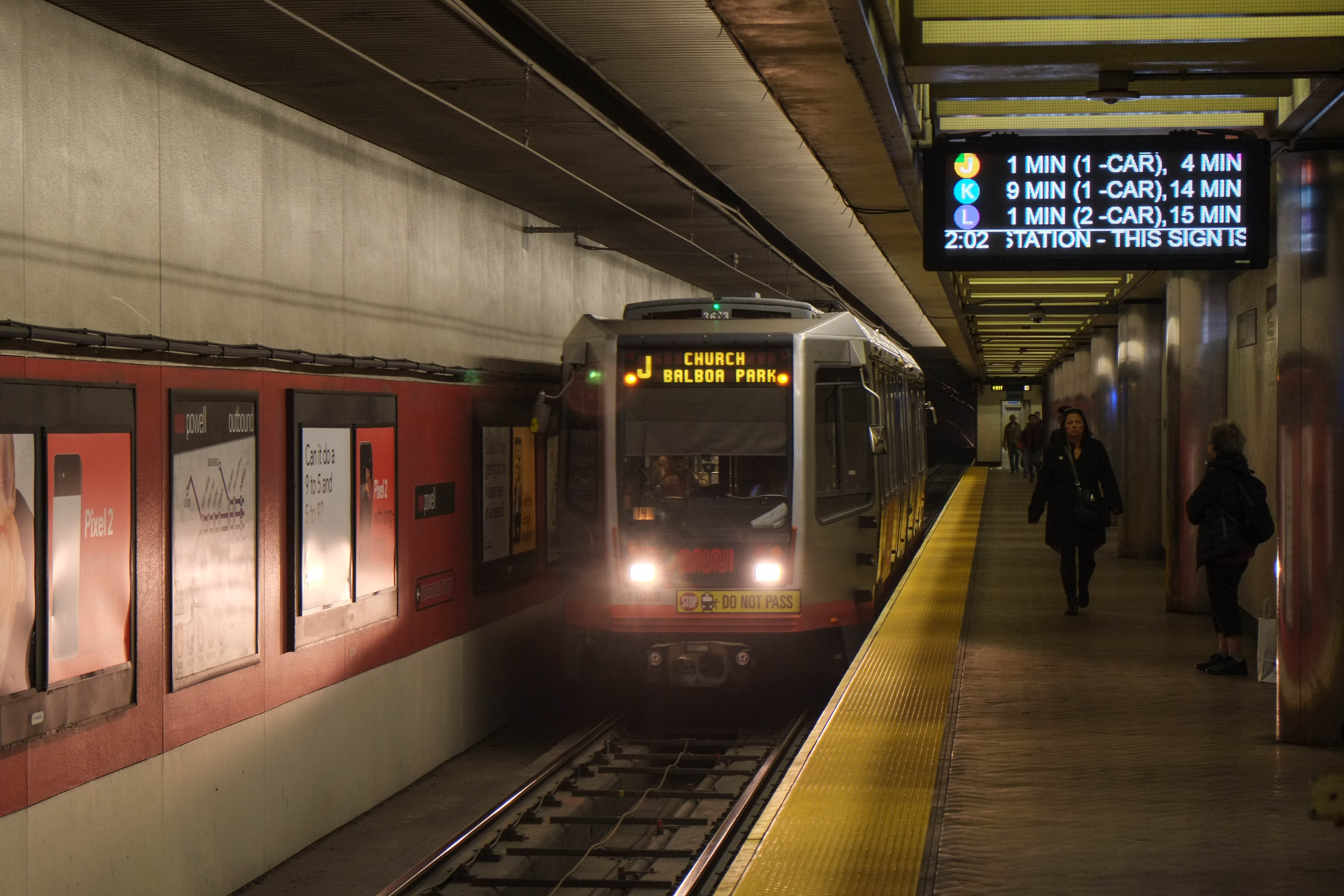 An outbound J Church train at Powell station in December 2017. At upper right is a brand-new countdown sign.